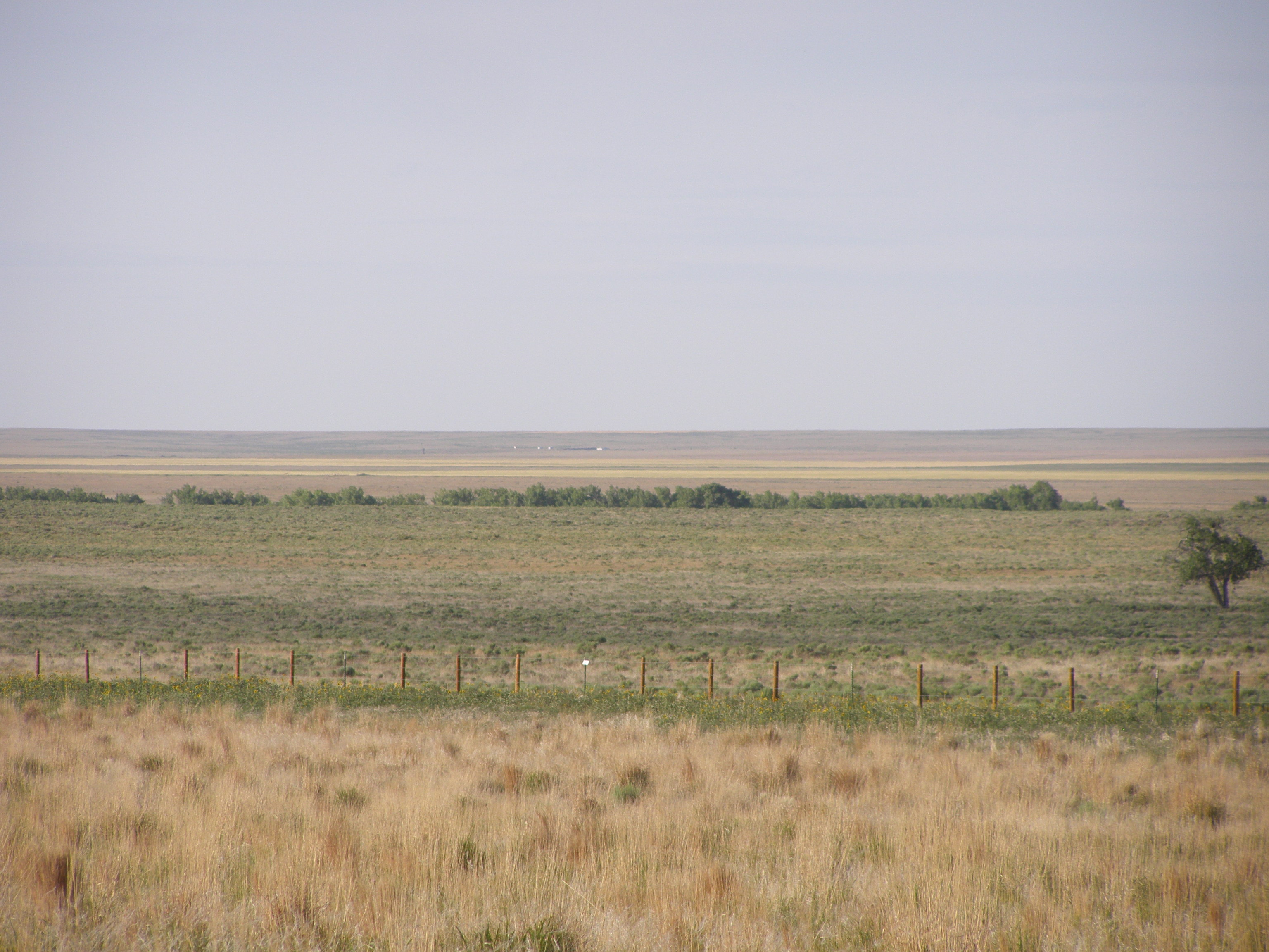 Sand Creek National Historic Site, on the high plains of eastern Colorado.